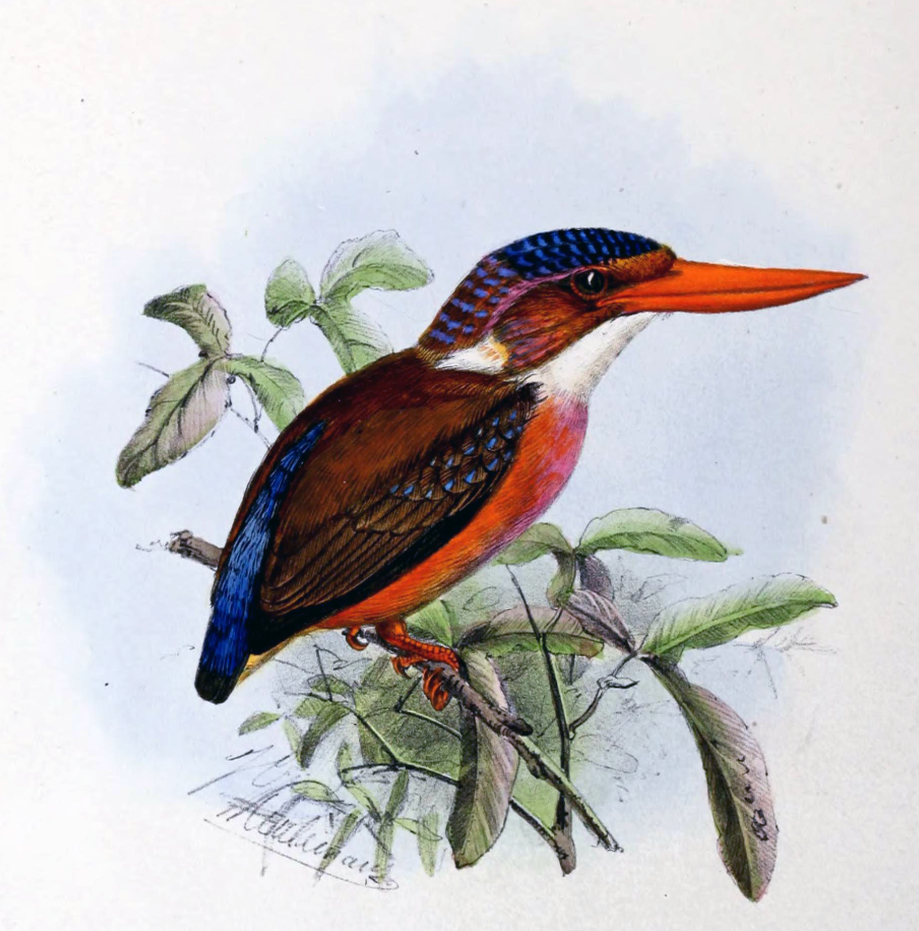 Illustration of Ceyx fallax drawn by J. G. Keulemans from A Monograph of The Alcedinidae, or Family of Kingfishers (1868–1871) by Richard Bowdler Sharpe (1847–1909).